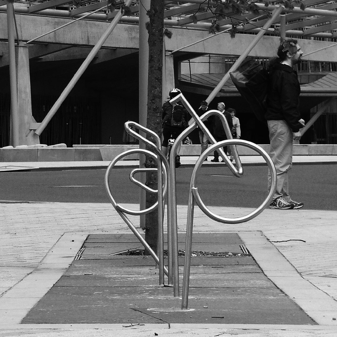 Bike racks by the Scottish Parliament in Edinburgh, designed to line up to make a picture of a bicycle. Each of these five bike racks is about a meter from its immediate neighbour.parliament bike racks